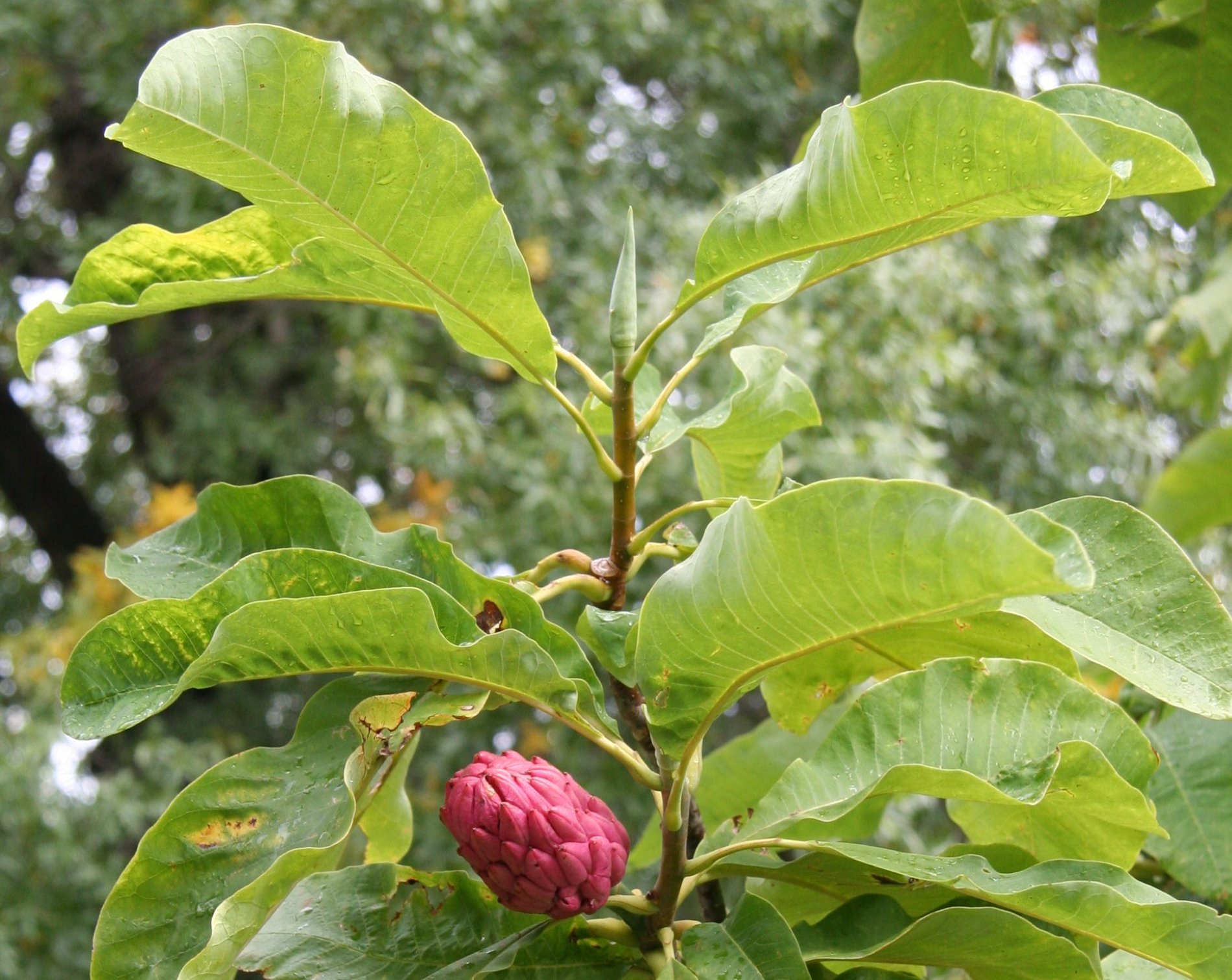 Magnolia tripetala fruit